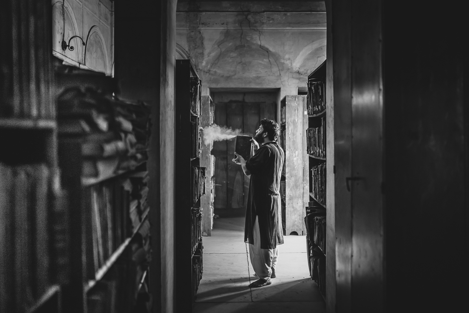 Prof Ali Khan Mahmudabad in his library